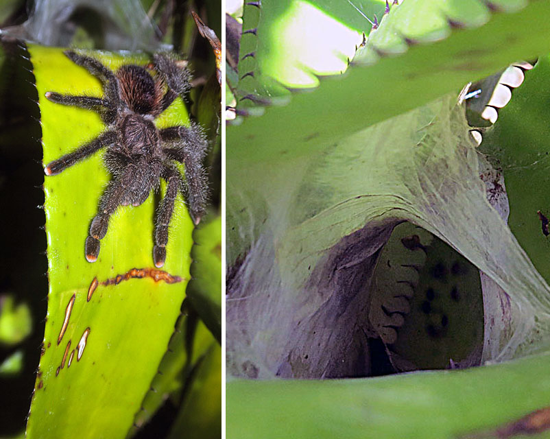 A Pink Toe Tarantula or Tarantula de Patas Rosadas at Calanoa Reserve in the Colombian Amazon, with its nest in a bromeliad. The species is native from Costa Rica to Brazil.